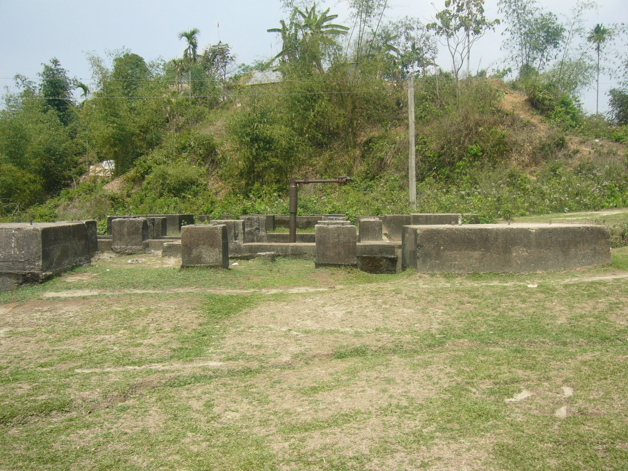 Authour: Shahnoor Habib Munmun